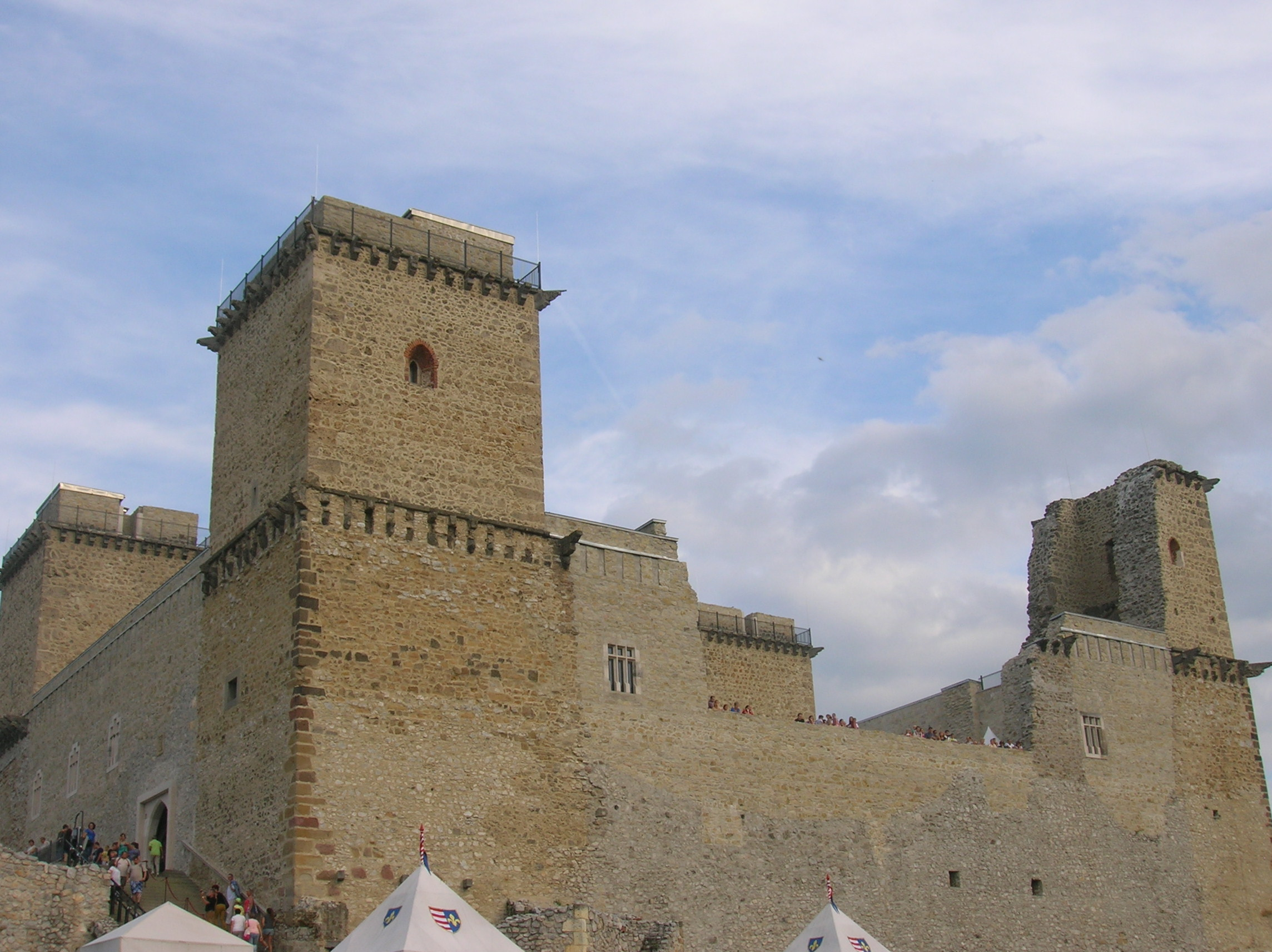 The newly reconstructed Castle of Diósgyőr on the day it was opened to the public